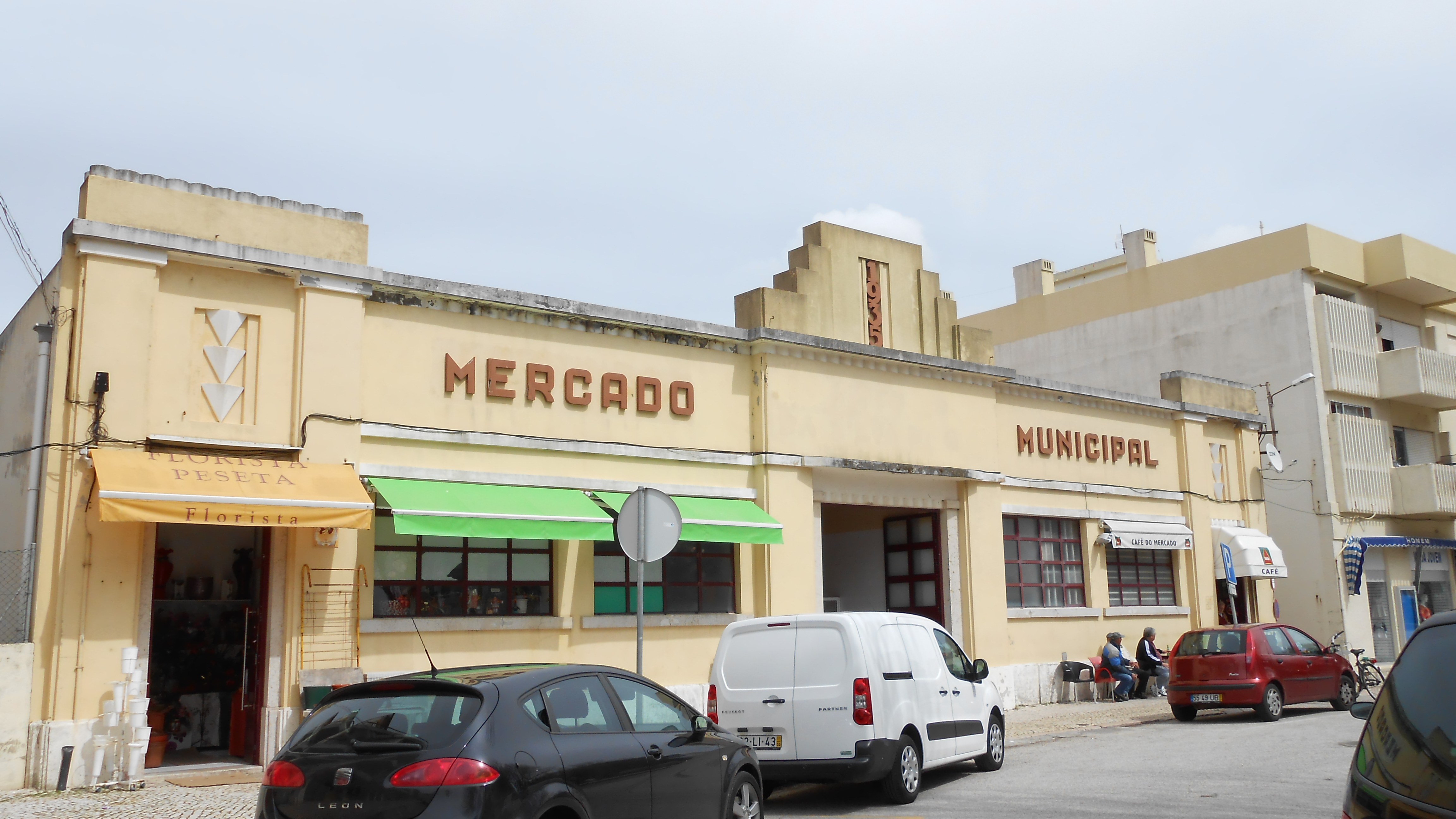 Buarcos Market hall